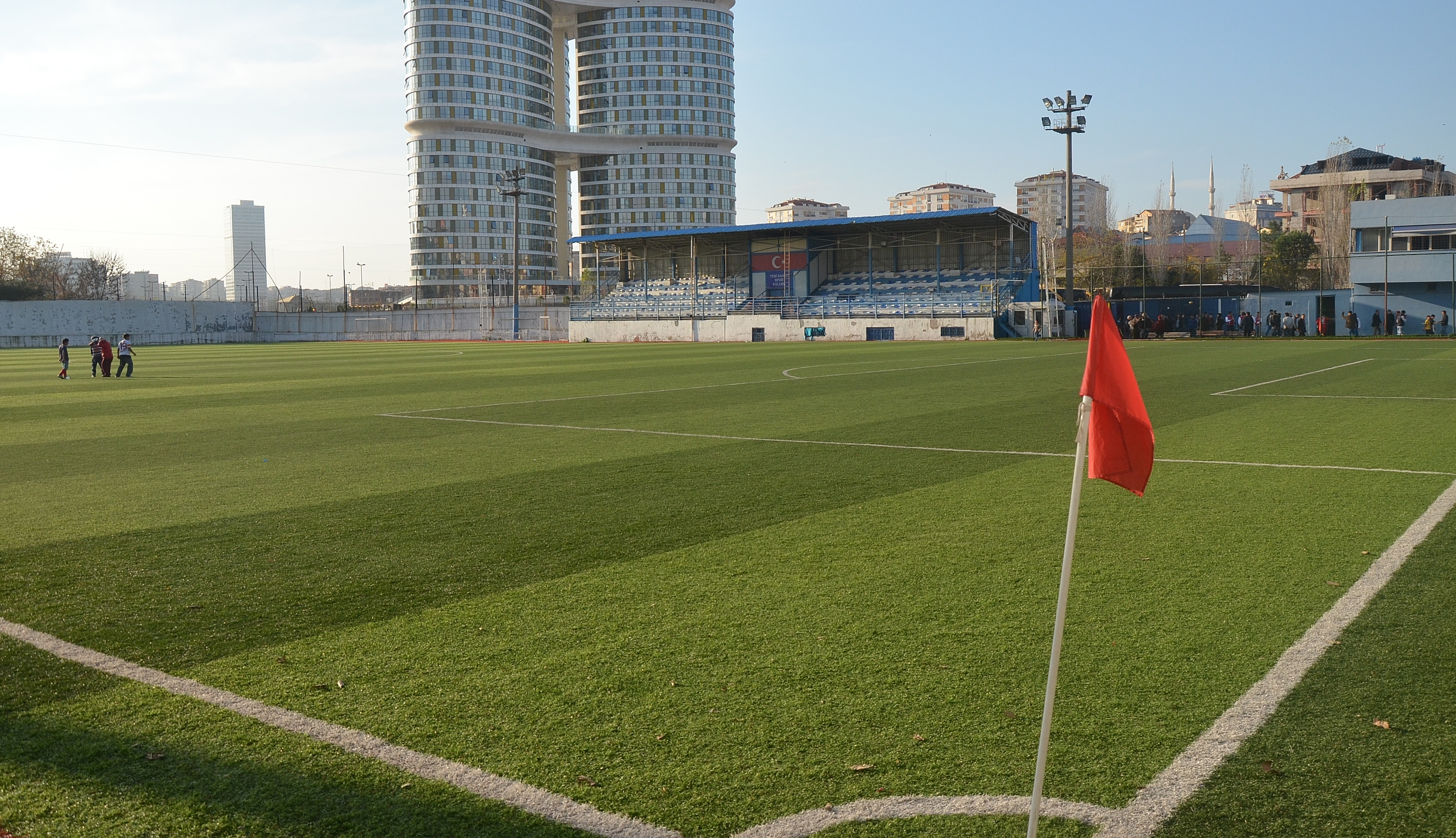 Yenisahra Stadium in Ataşehir, Istanbul